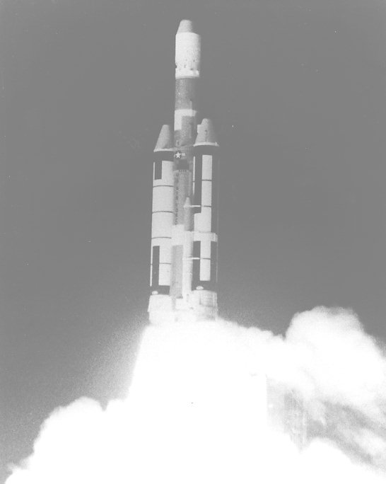 Titan IIIC launching Vela military satellites (April 8, 1970) original image caption: TITAN IIIC VELA SATELLITE MISSION FROM PAD 40, 8 April 1970